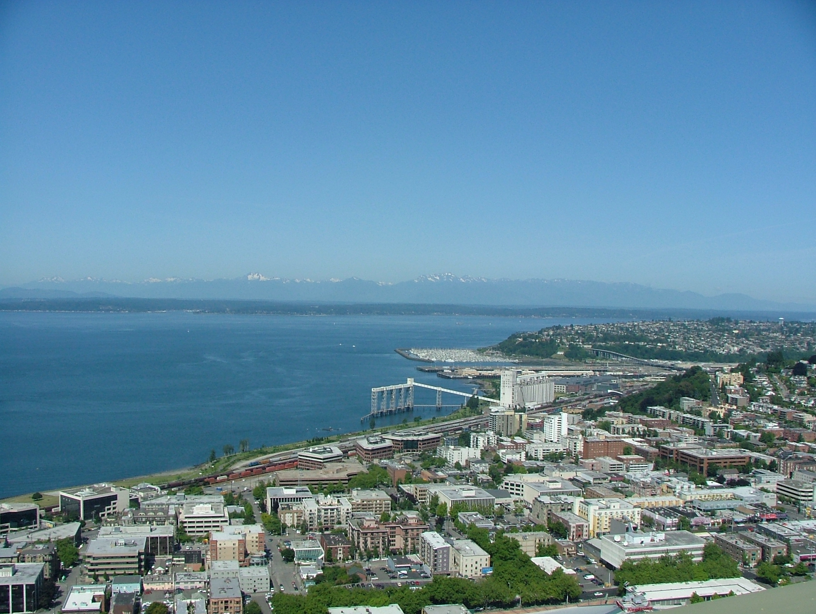 Puget Sound and Olympic Mountains from Space Needle, Seattle, Washington, United States. Smith Cove docks near center of photo.